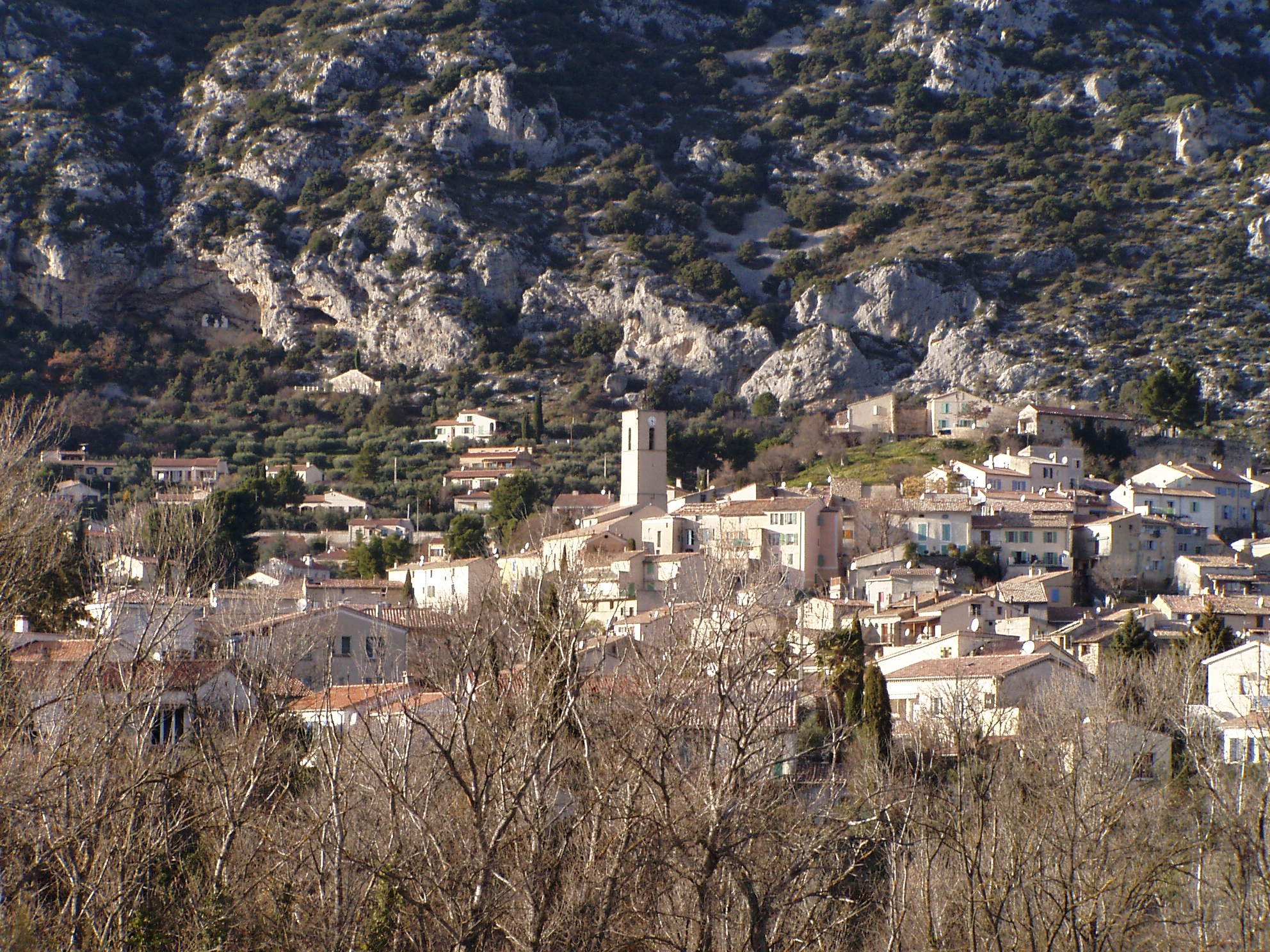 The village of Volx